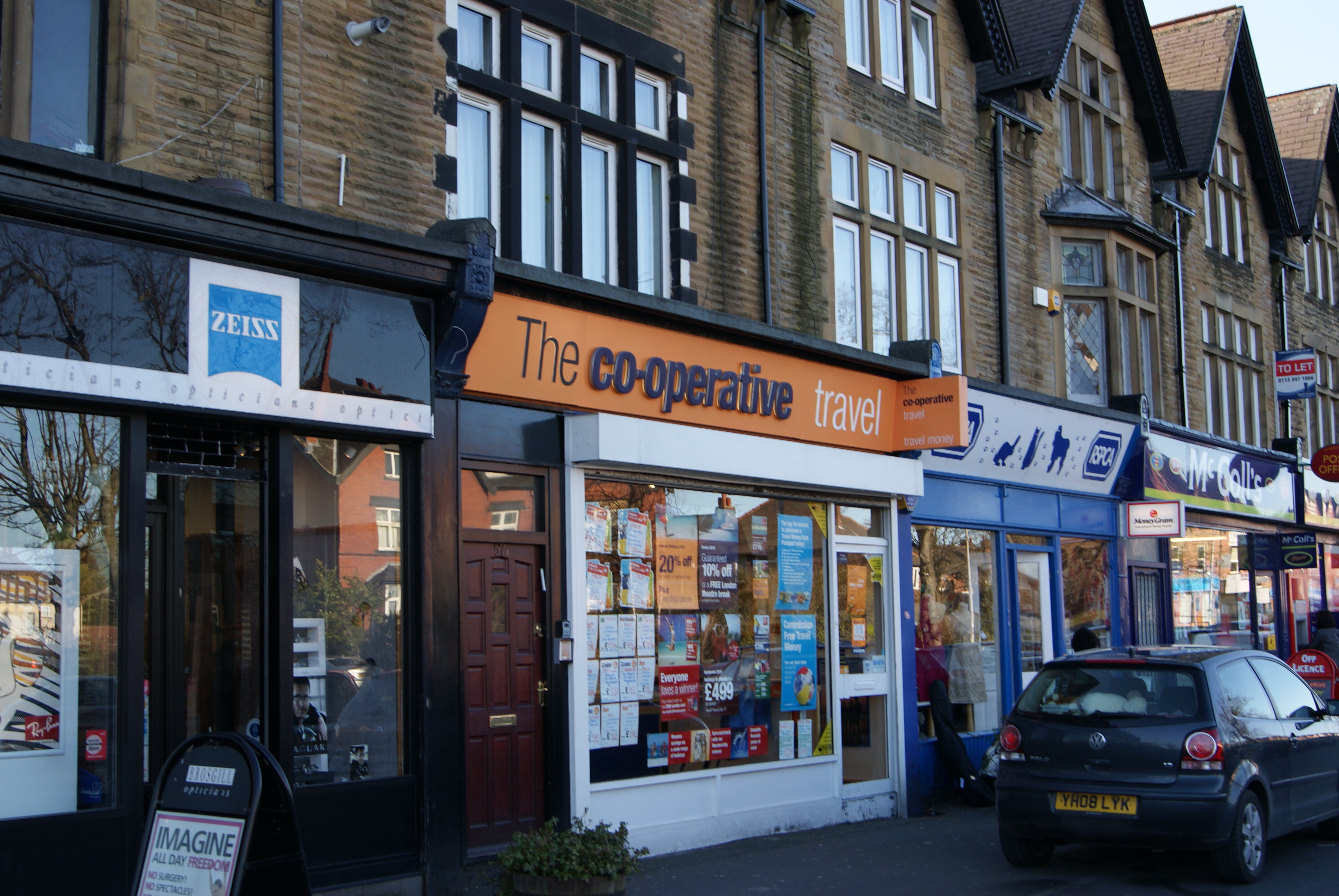 Co-operative travel agents on Street Lane in Roundhay. Taken on the afternoon of Saturday the 30th of January 2010.